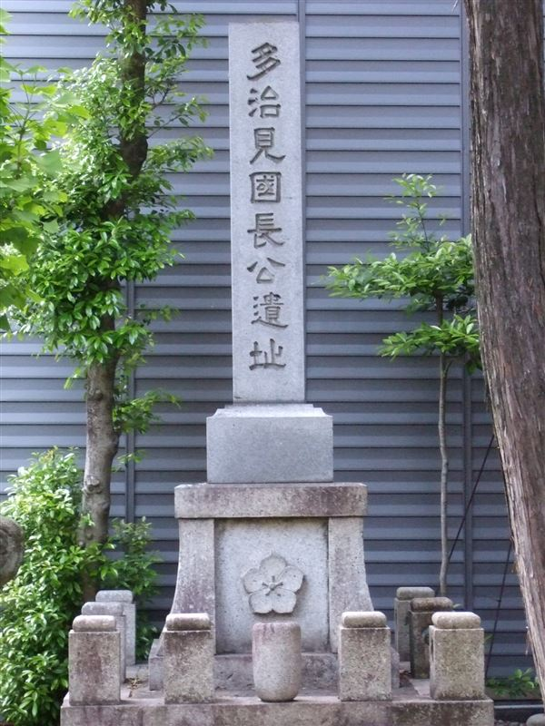 Historic spot of residense of Kuninaga Tajimi